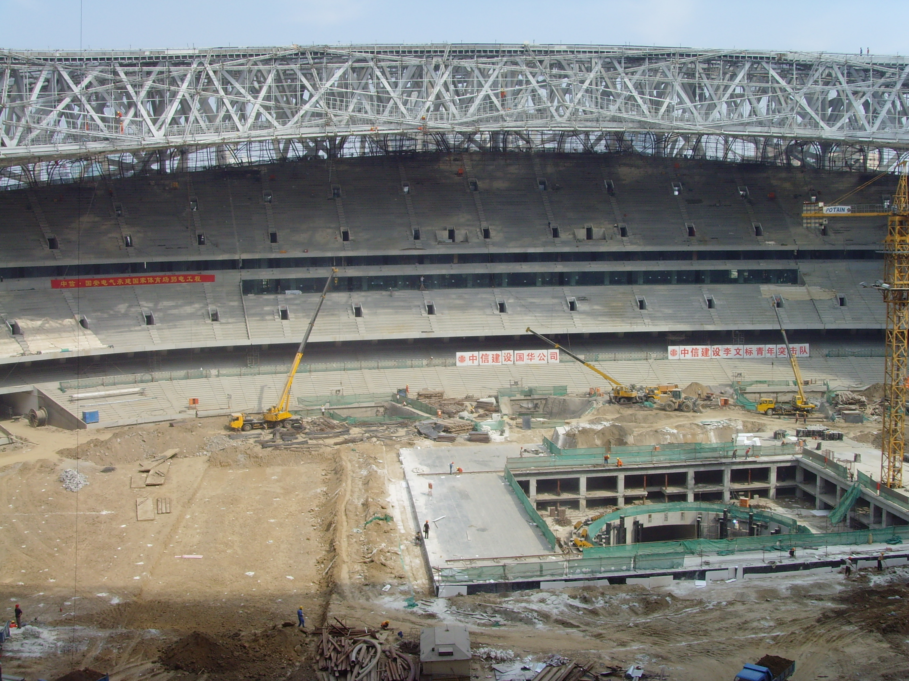 The Olympic Stadium, Beijing, under construction in Sept 2007